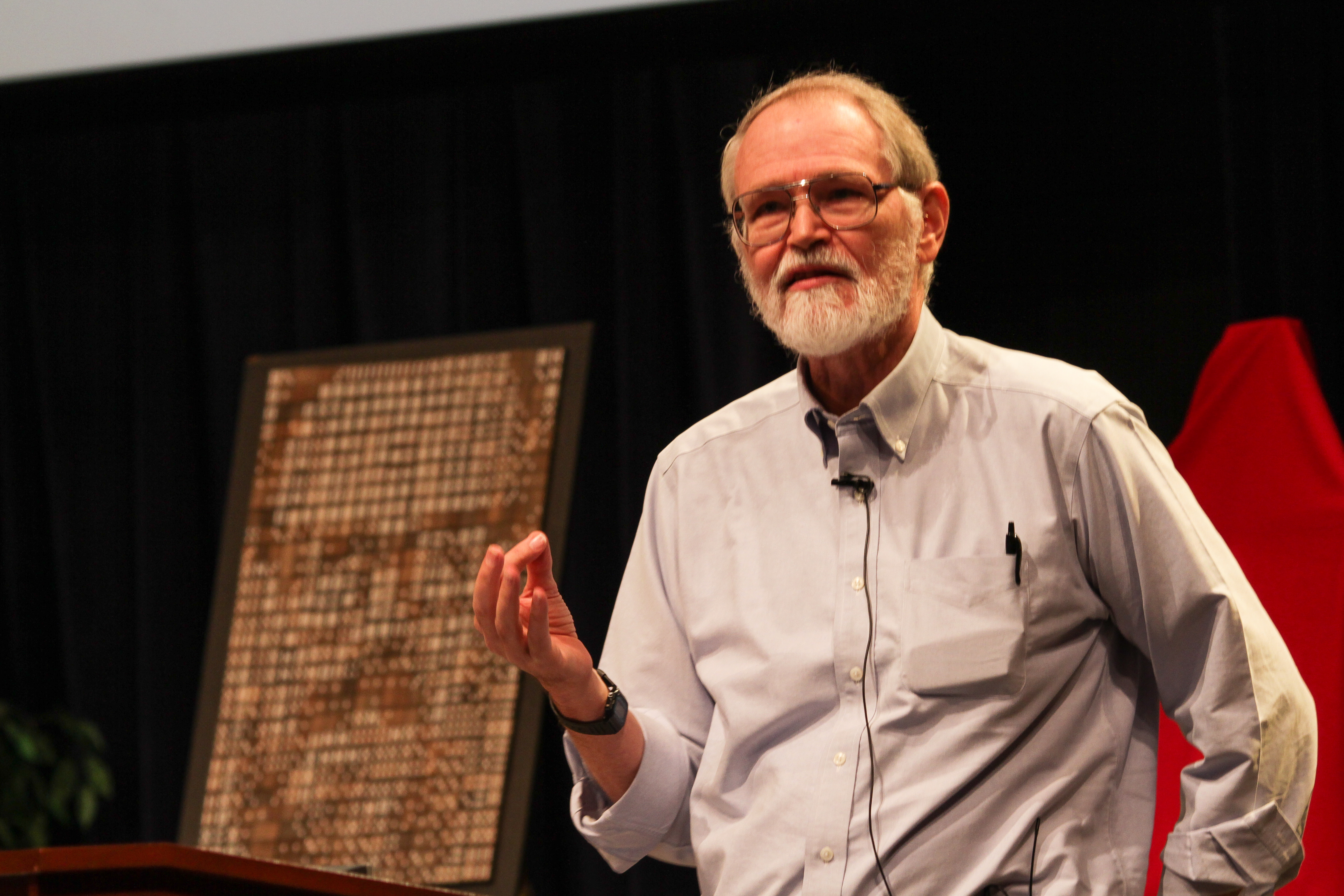 Brian Kernighan speaks at a tribute to Dennis Ritchie at Bells Labs.